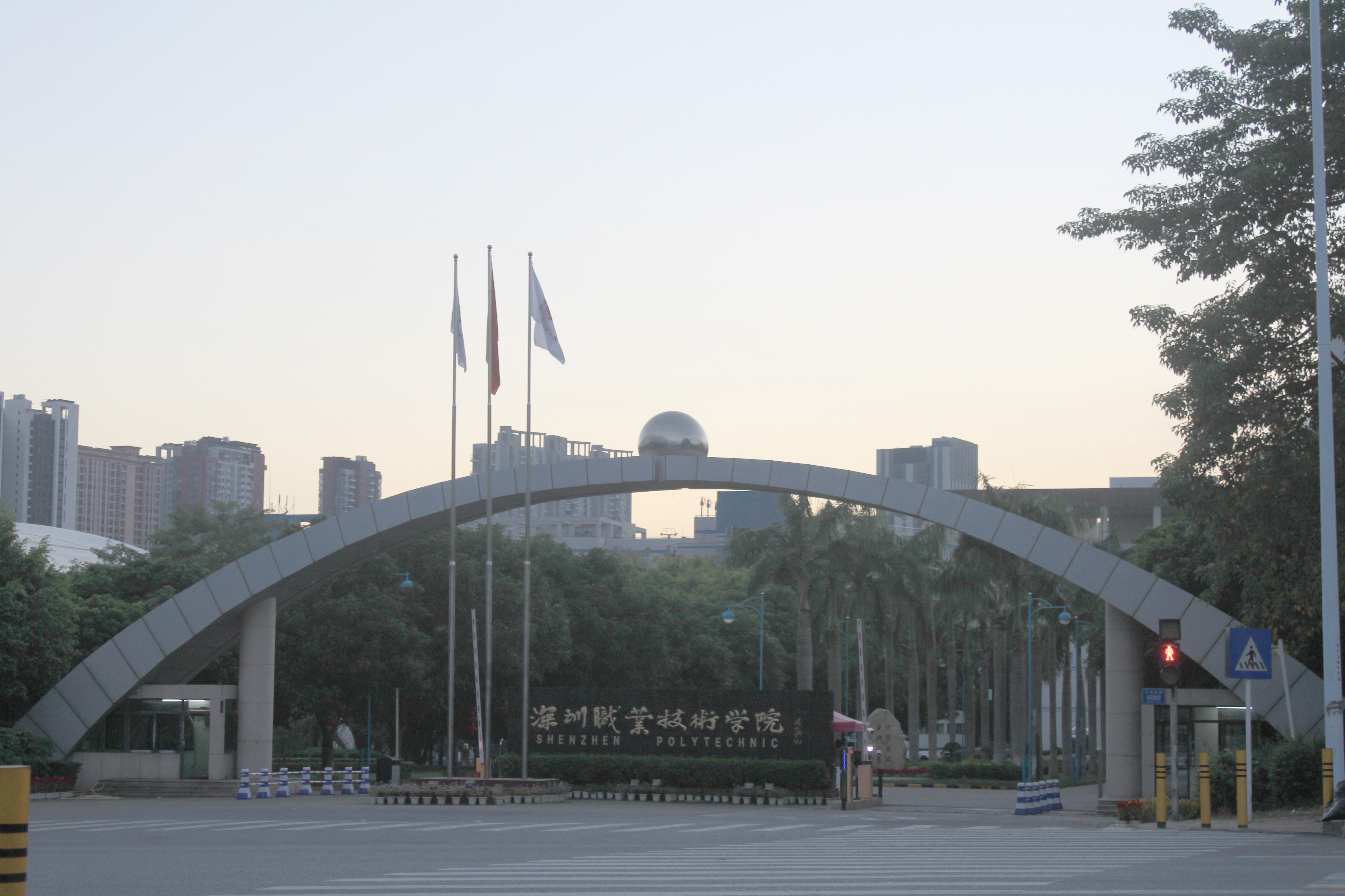 Main gate of Shenzhen Polytechnic.